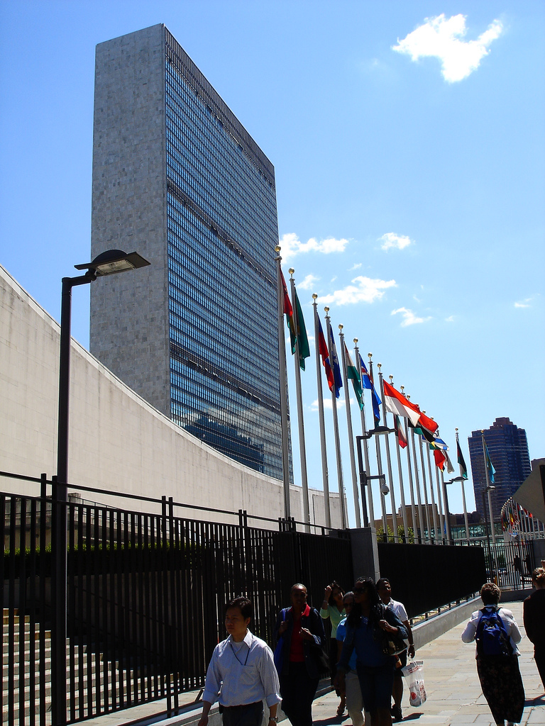 The UN building in NYC.